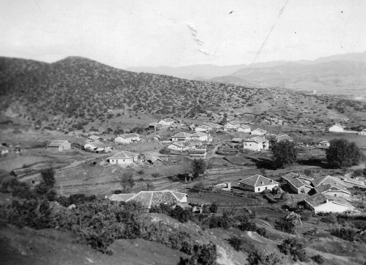 Davidovo, photo from 1931 This media file is produced by Wikipedian in Residence in Category:Wikipedian in Residence at DARM in 2016.